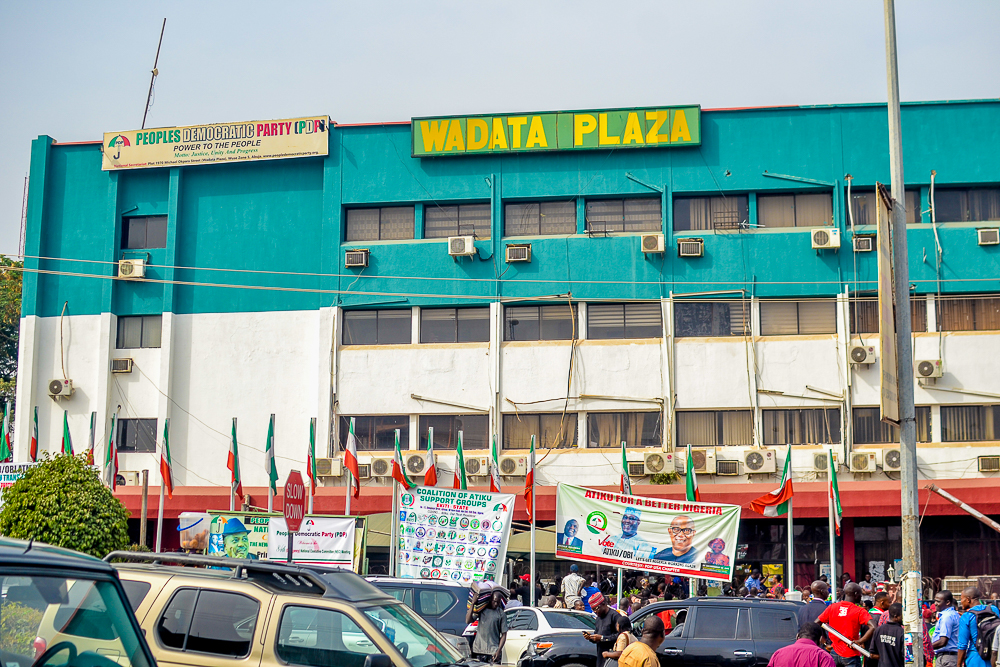 Wadata plaza, PDP National headquarters, Abuja